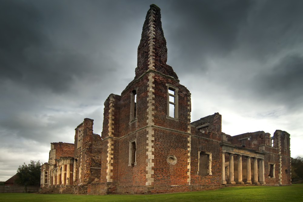 The ruins of Houghton House, Houghton Park in Bedfordshire